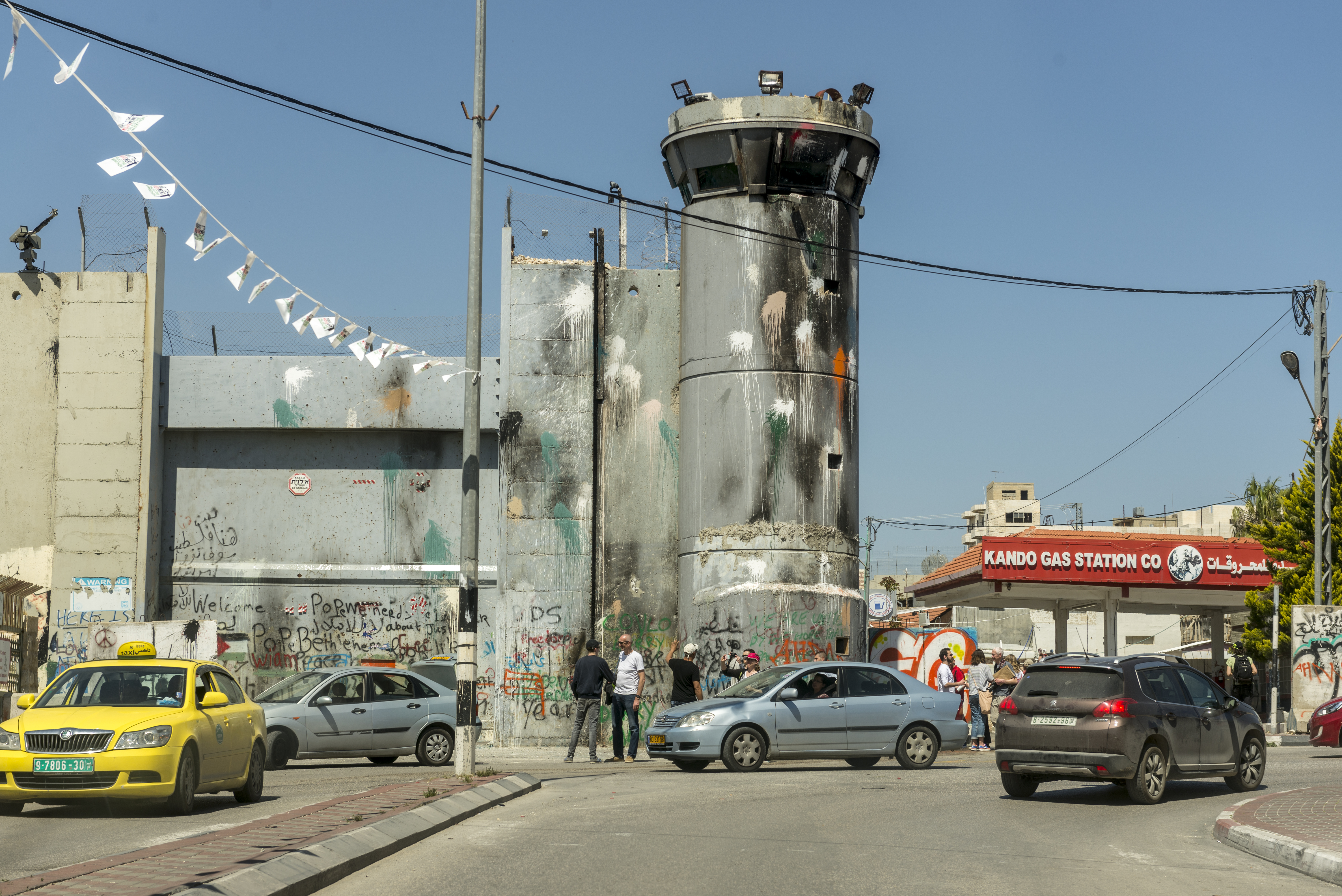 the wall of bethlehem, palestine